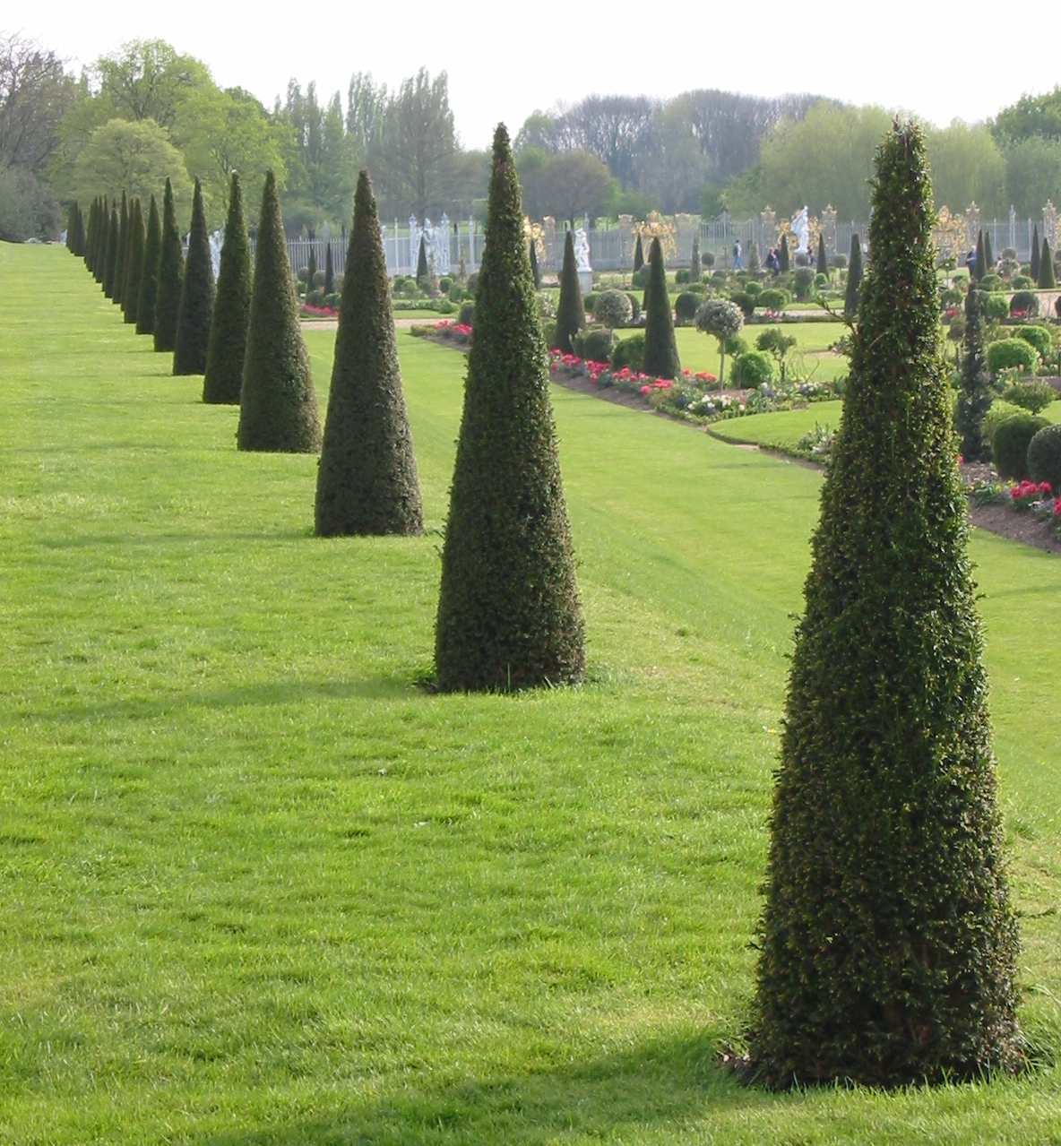 Hampton Court, London